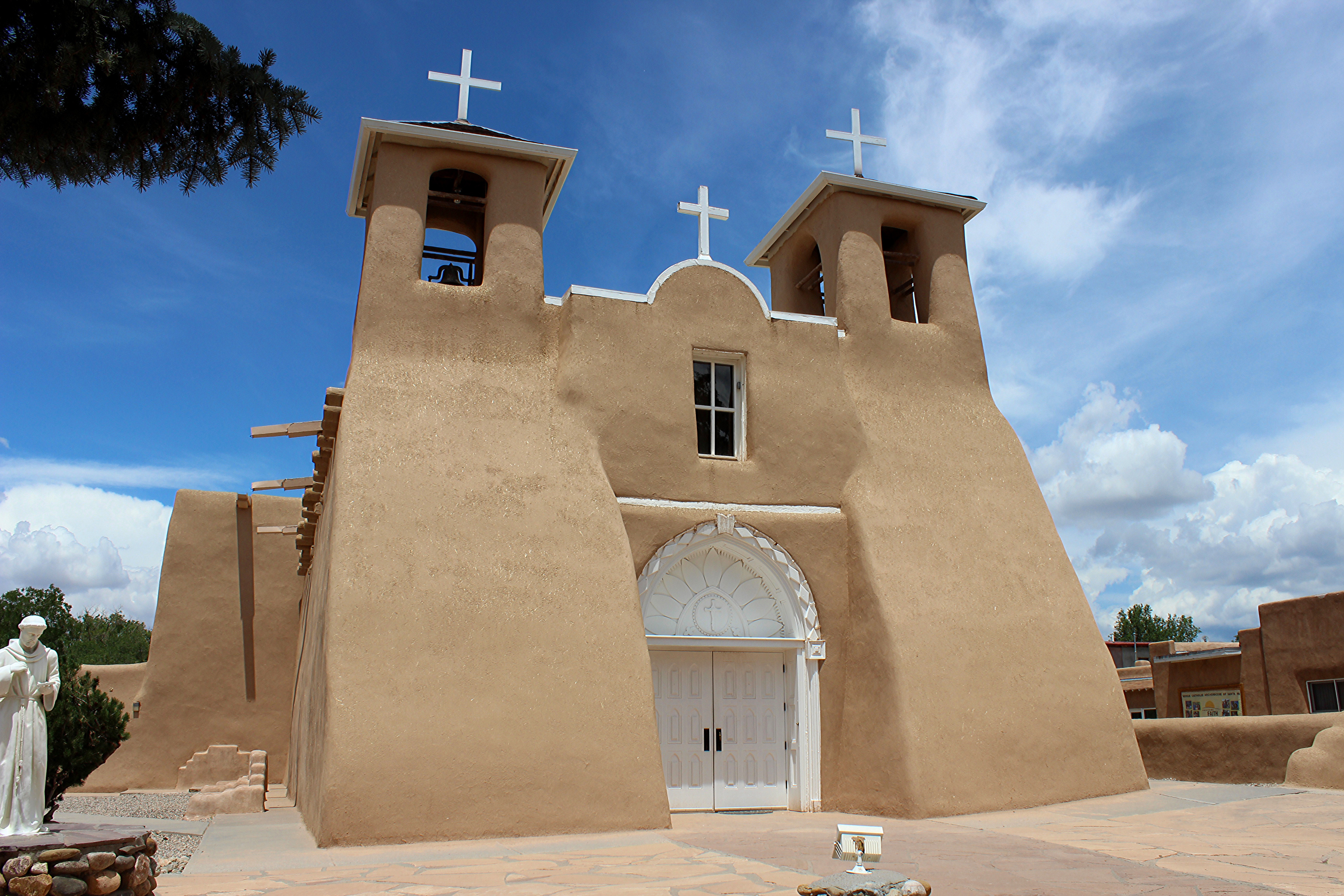 Exterior of the San Francisco de Asis Mission Church in Ranchos de Taos, New Mexico